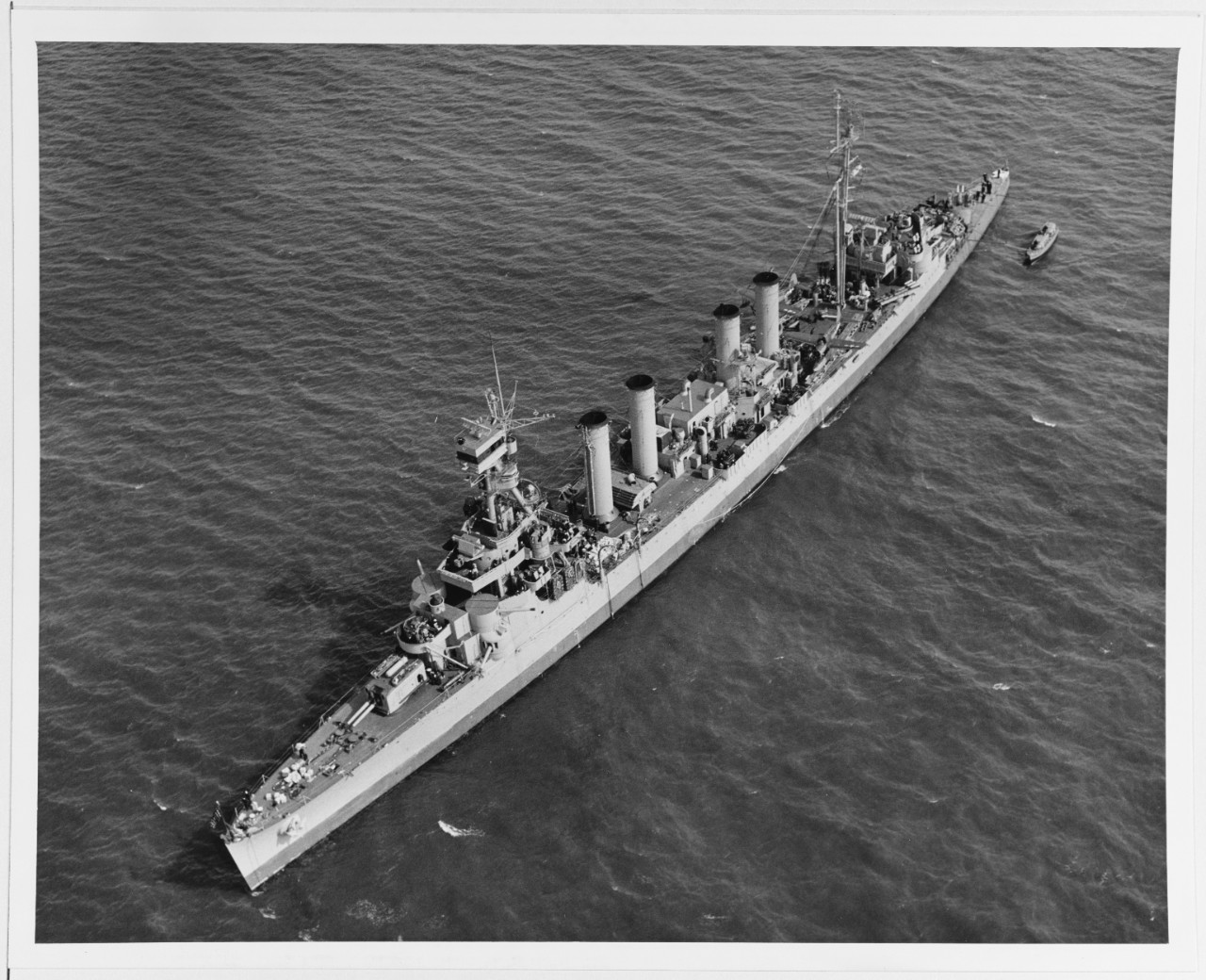 USS Cincinnati (CL-6) New York Harbor 22 March 1944. #19-N-62459